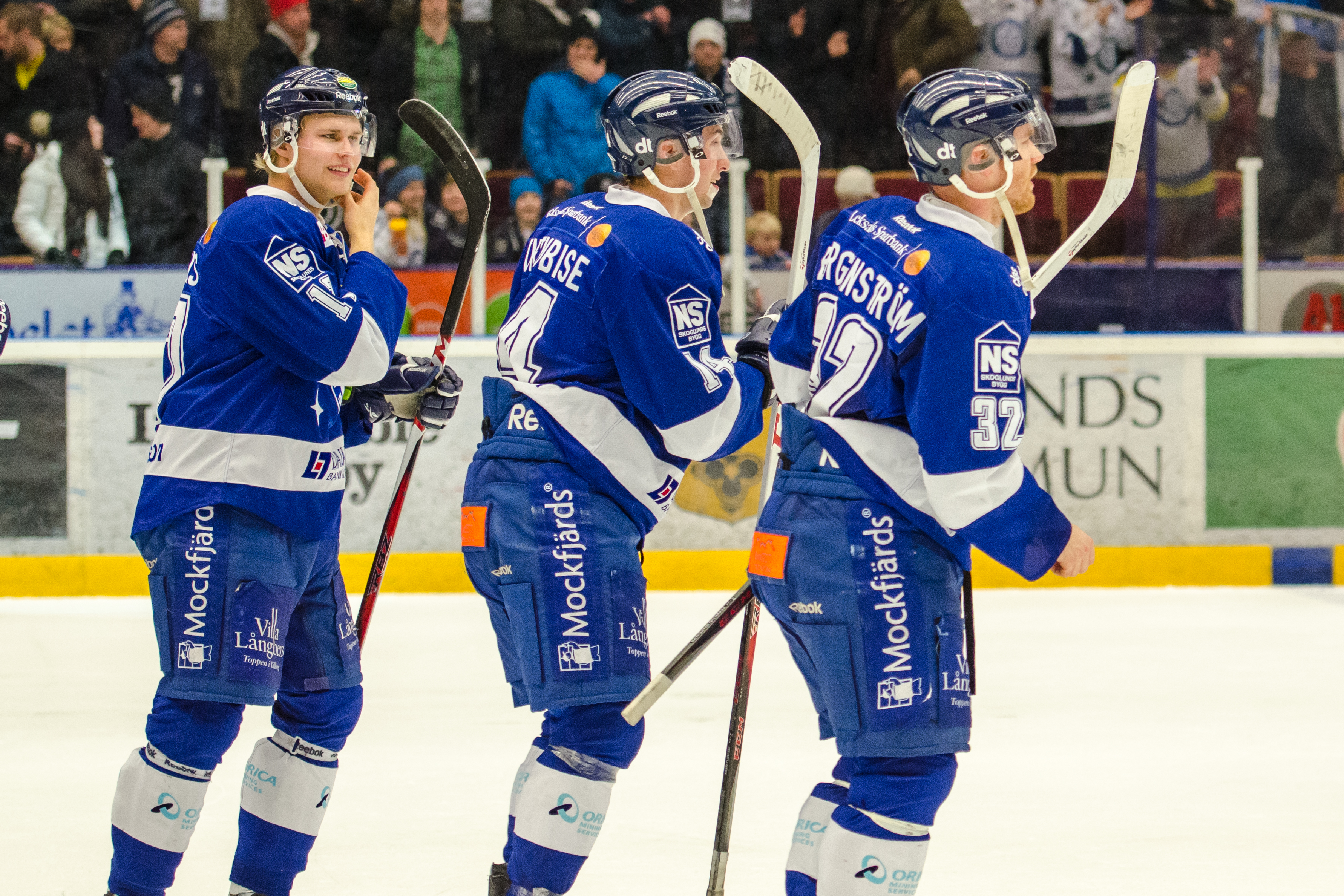 Players of Leksands IF celebrates 3–0 victory against Mora IK in Hockeyallsvenskan (Swedish second league) 2012-12-29.